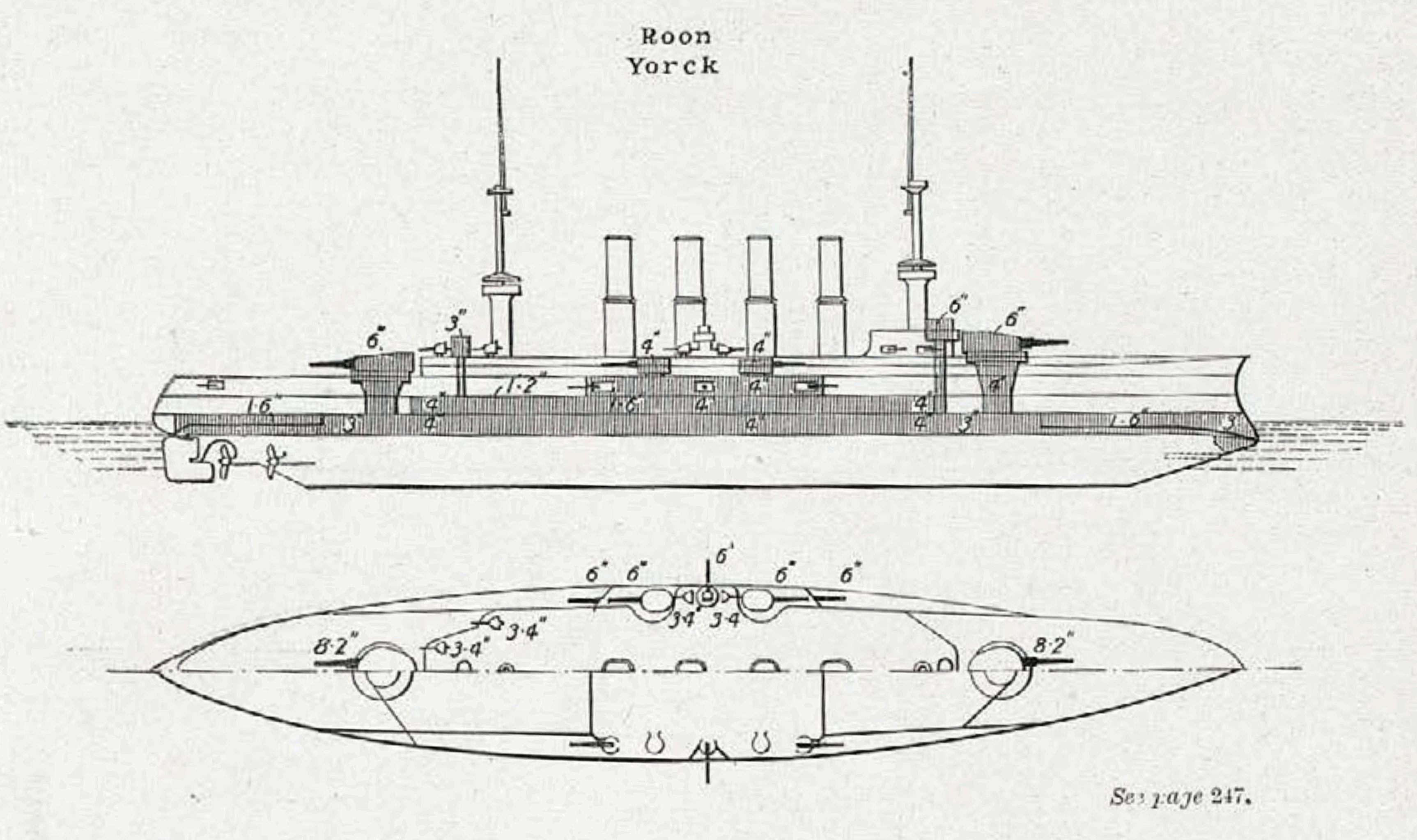 Side and profile drawing of the Roon class of armored cruisers